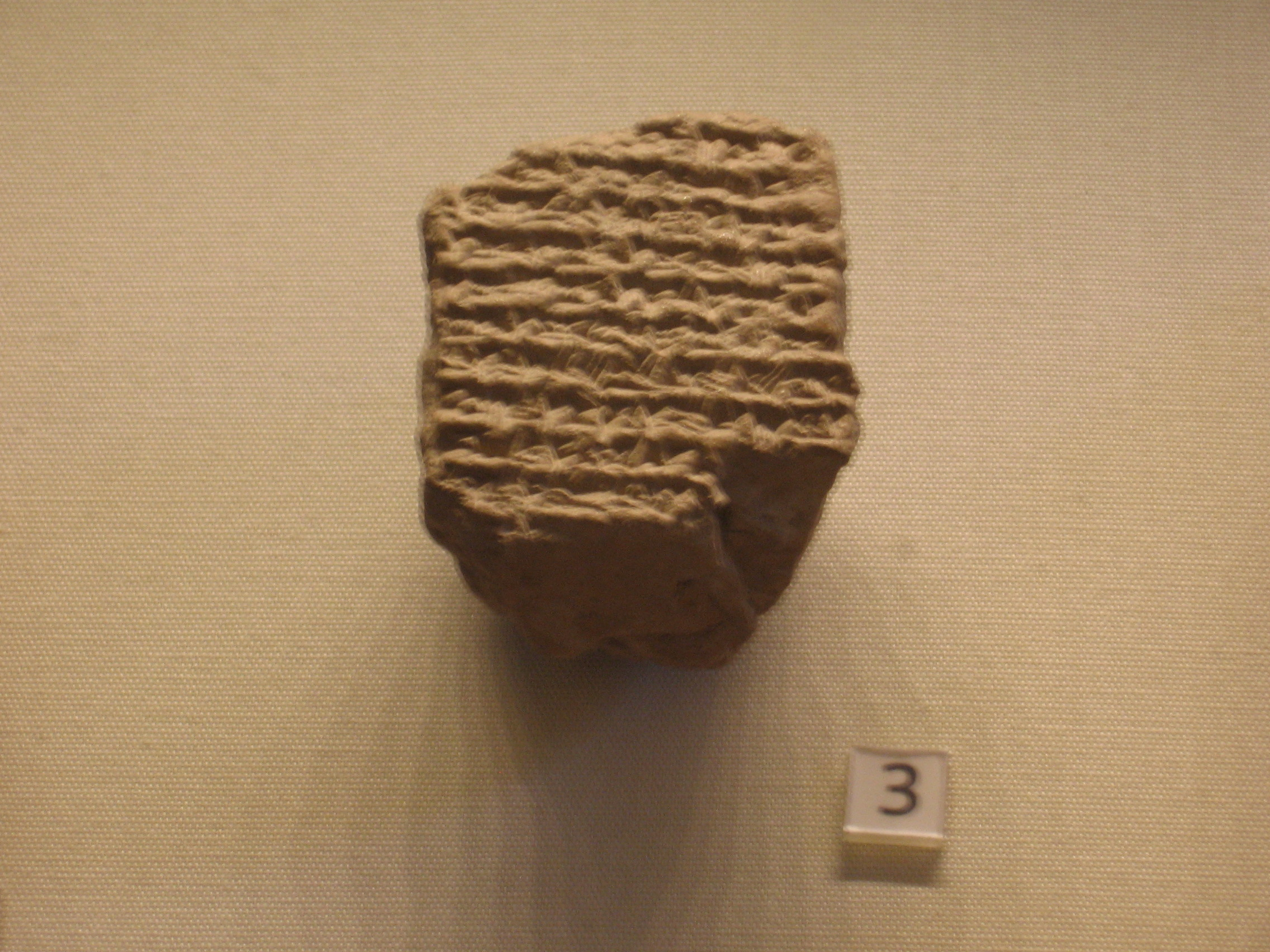 A diary of space and weather observations from the year 323-322 BC that records the death of Alexander the Great, referring to him simply as "The King". On display at the British Museum, London.